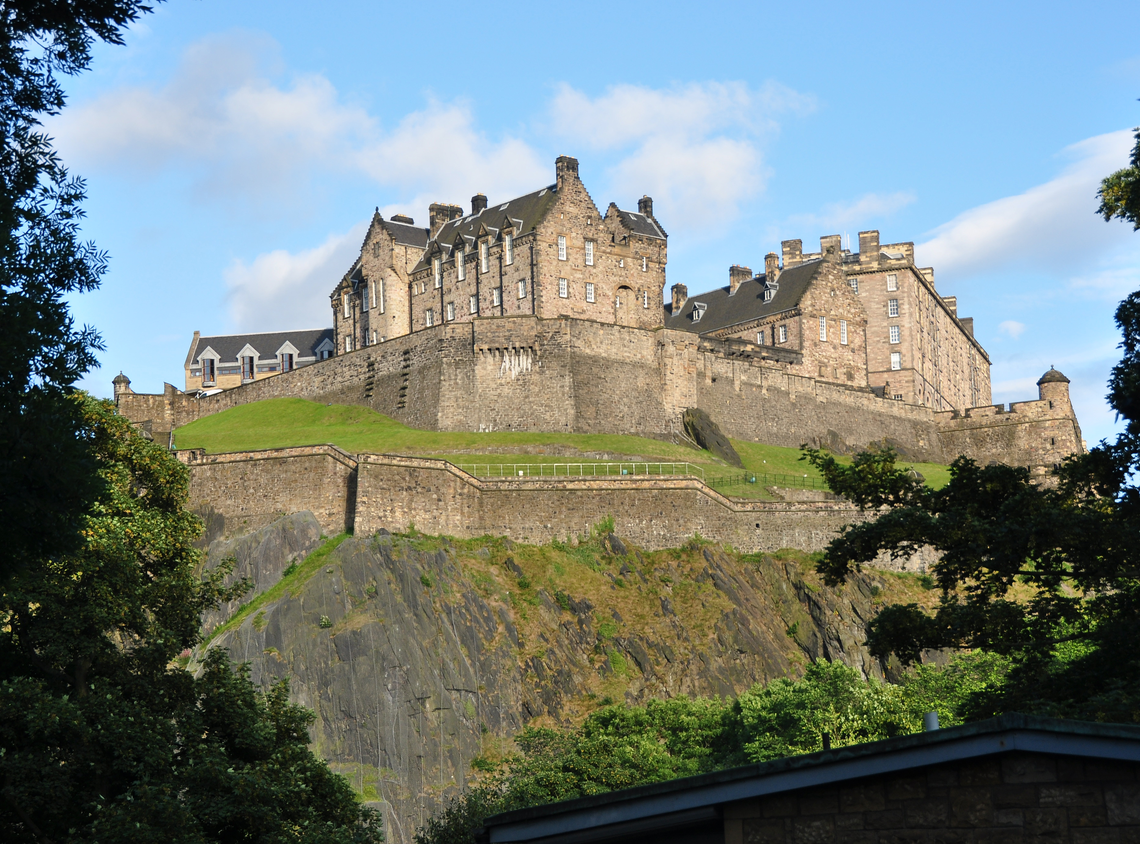 A view up to Edinburgh Castle, Scotland, from Princes Street Gardens.